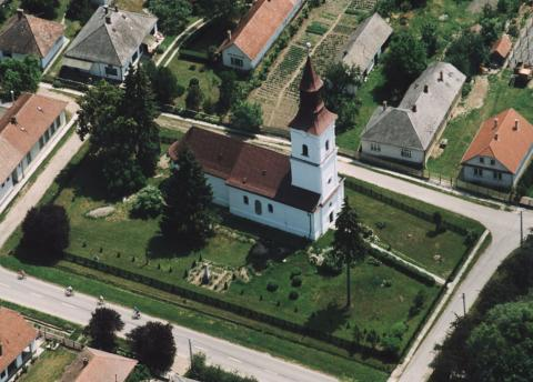 Nagyar, Hungary, aerialphotography